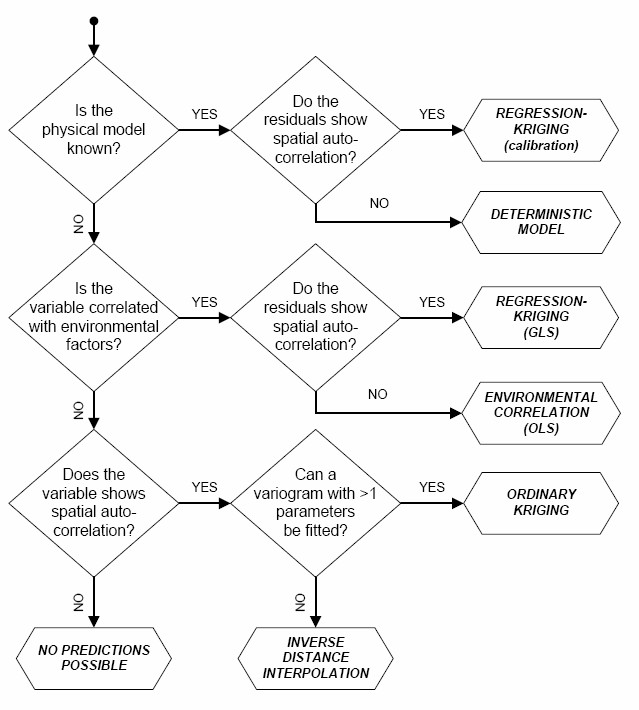 Source: "A practical guide to geostatistical mapping" book by Hengl T.